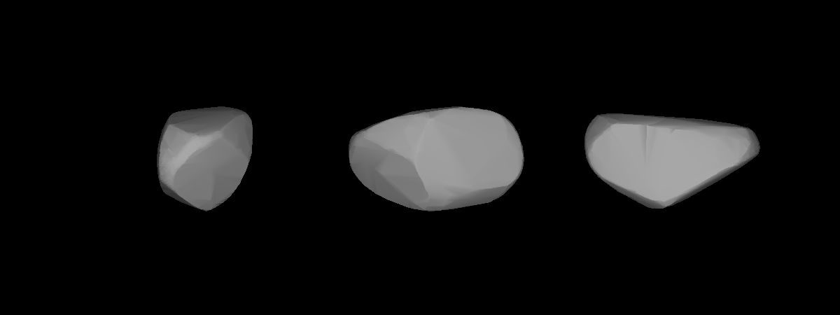 A three-dimensional model of 2606 Odessa that was computed using light curve inversion techniques.